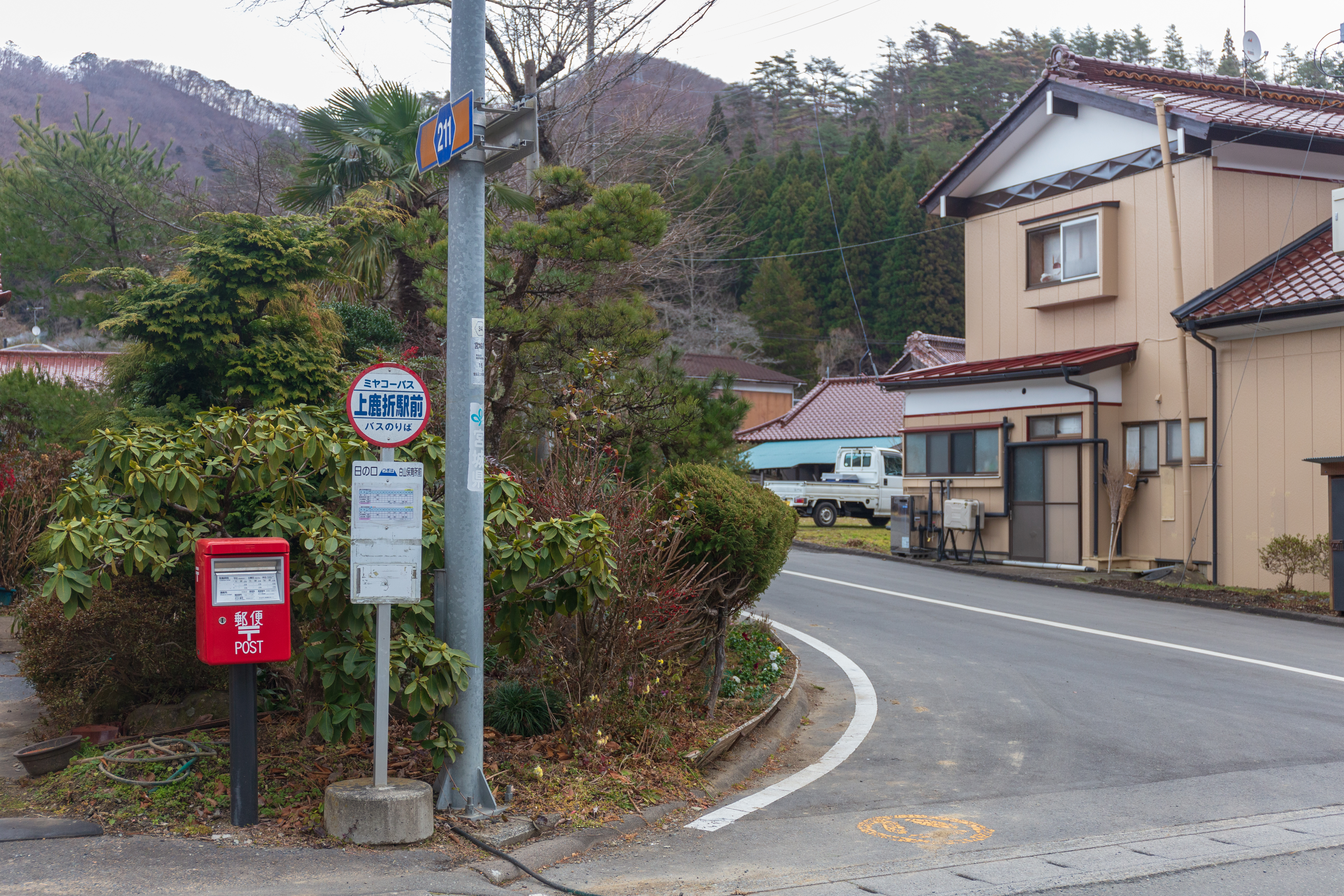 Miyakoh Bus Kami-Shishiori Ekimae bus stop in Kesennuma City, Miyagi Prefecture, Japan